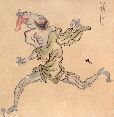 Isogashi (いそがし) from the Hyakki Yagyō Emaki (百鬼夜行絵巻)